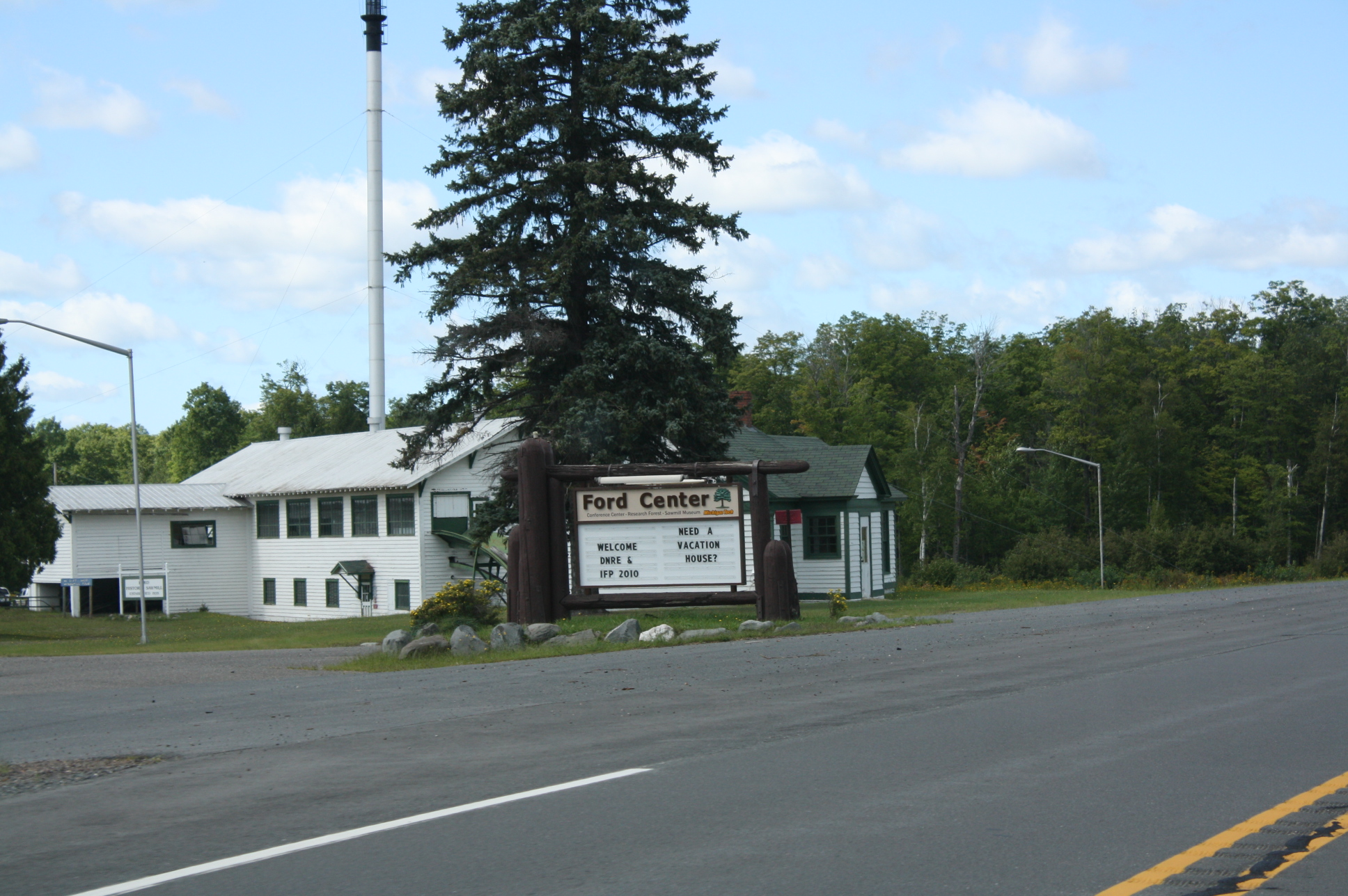 The Ford Center in Alberta, Michigan, Wisconsin along U.S. Route 41, a former place in the Ford Motor Company related to their wood cutting operating used in their vehicles.